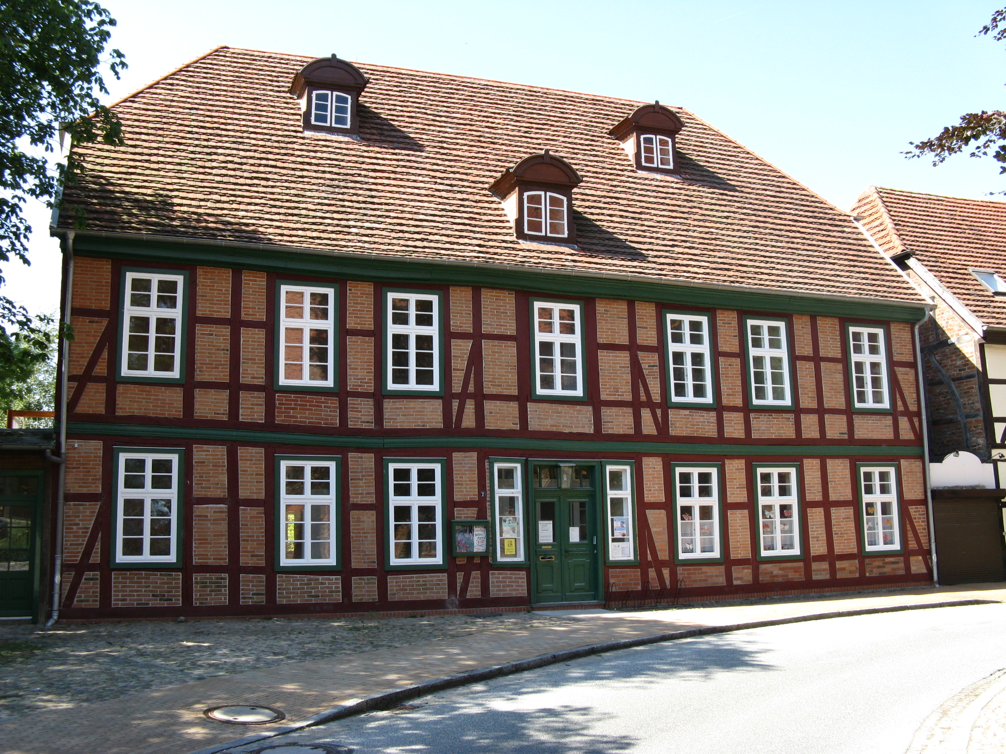 Timber framed house in Crivitz, disctrict Ludwigslust-Parchim, Mecklenburg-Vorpommern, Germany